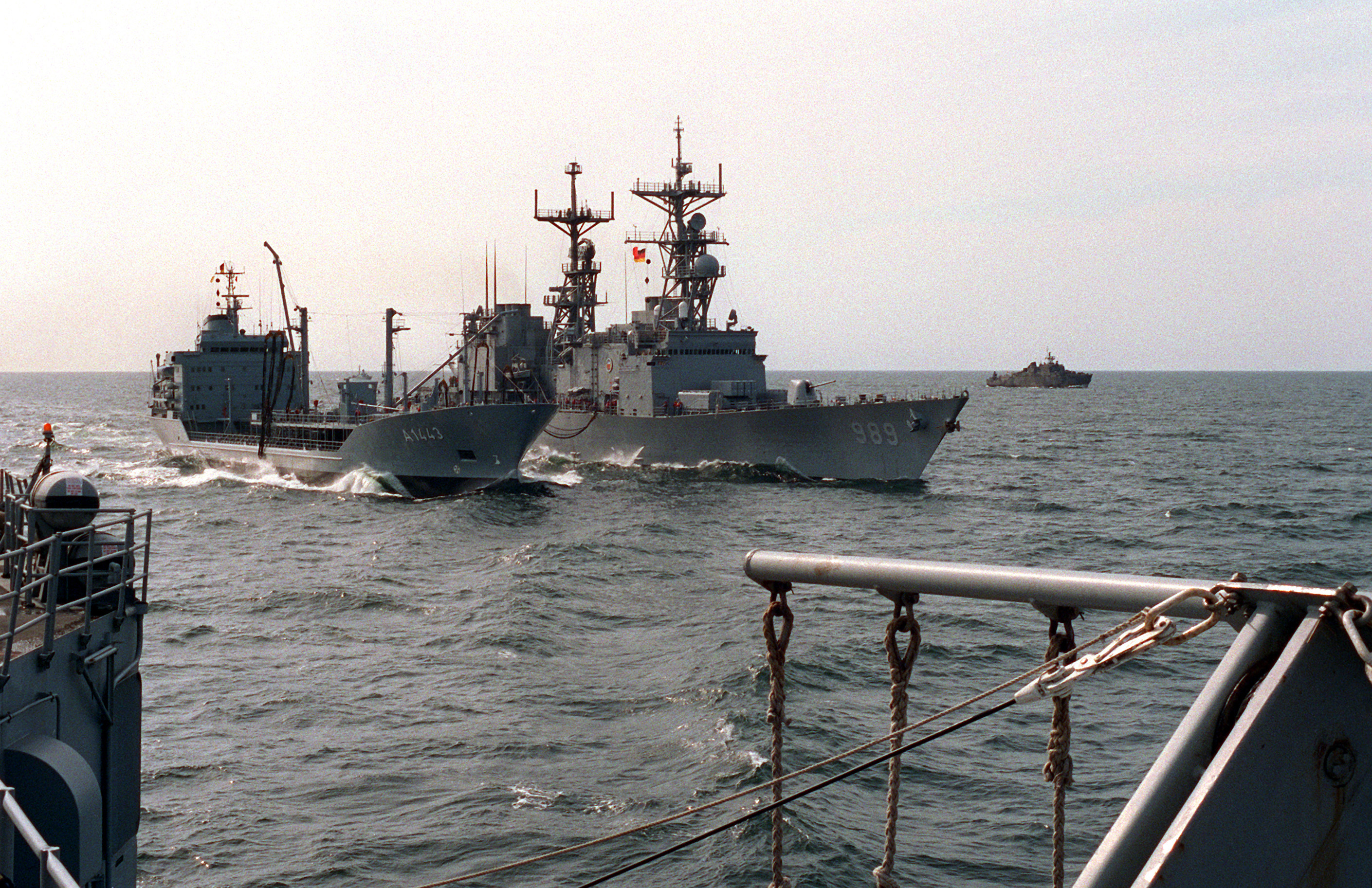 The U.S. Navy destroyer USS Deyo (DD-989) refuels from the German replenishment oiler Rhön (A1443) during exercise "Baltops '93" on 1 June 1993 in the Baltic Sea. Deyo was serving as flagship for the exercise commander. Note that she is flying a German flag.